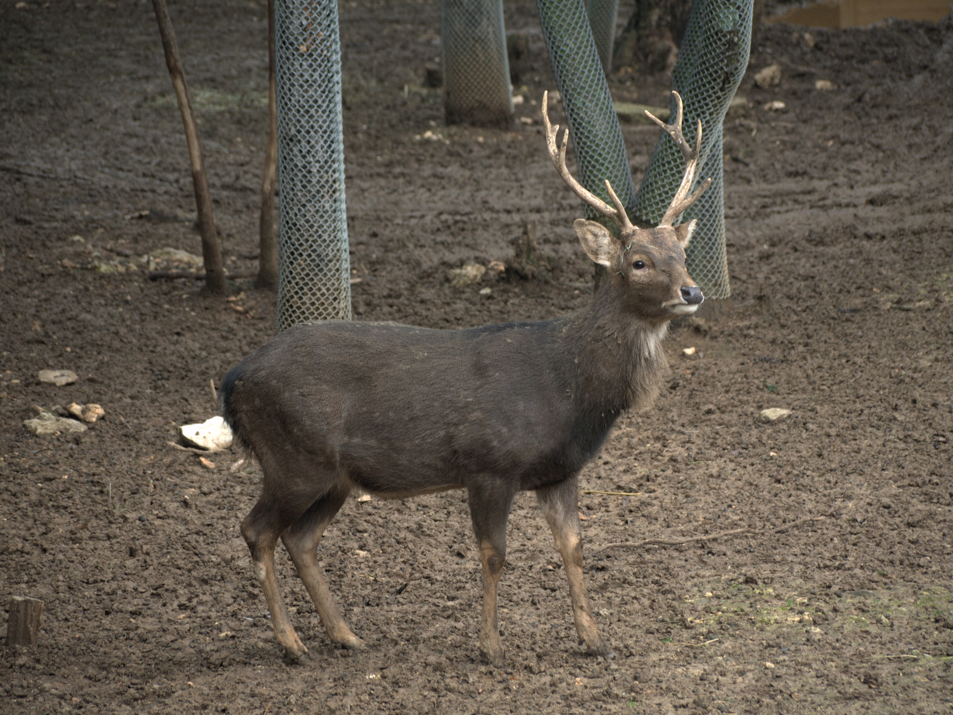 Photograph taken at the zoo of Lunaret in Montpellier in France.